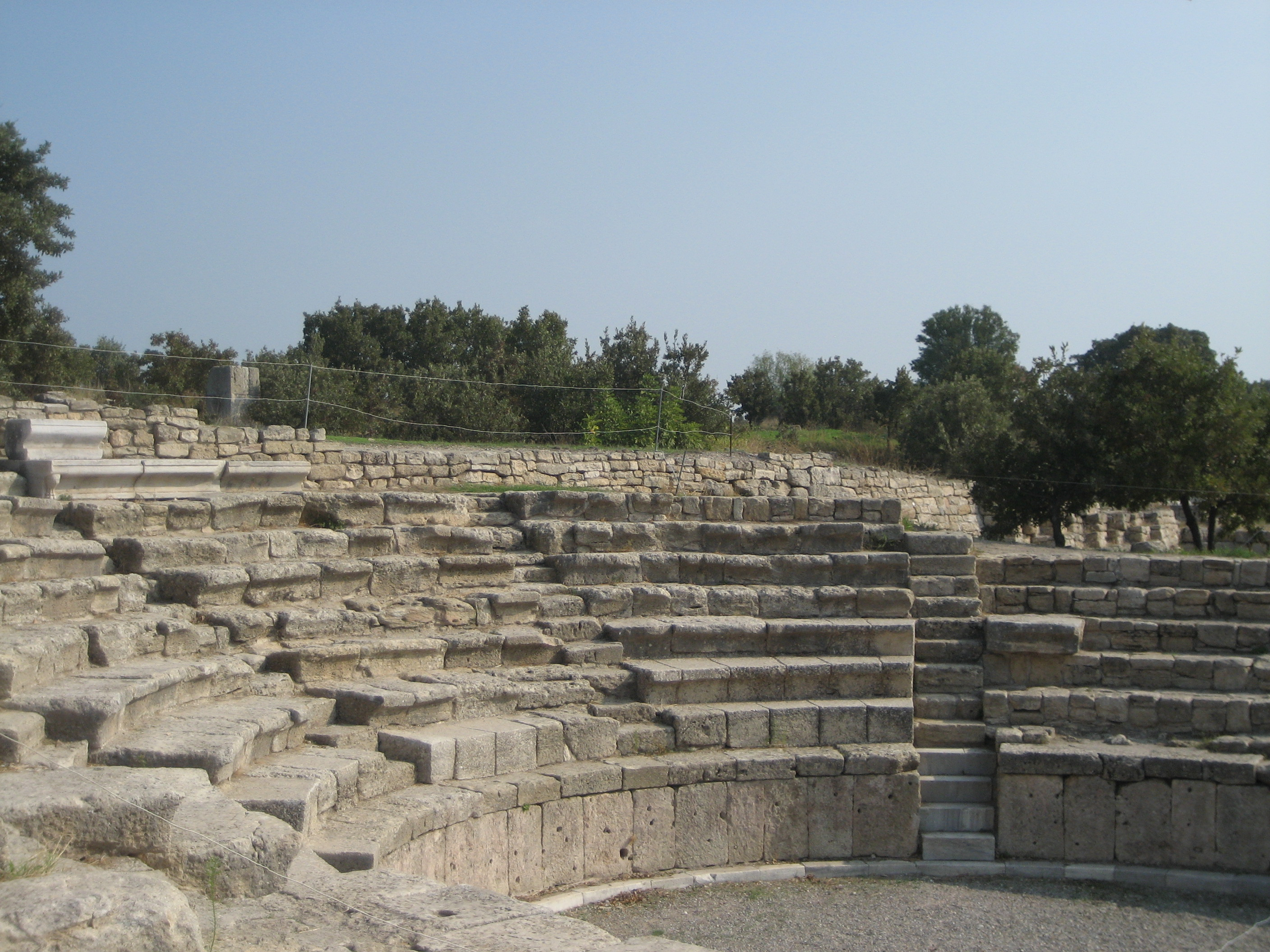 One of the very few Roman sites dug out in TroyThe Roman Odeon in Troy IX